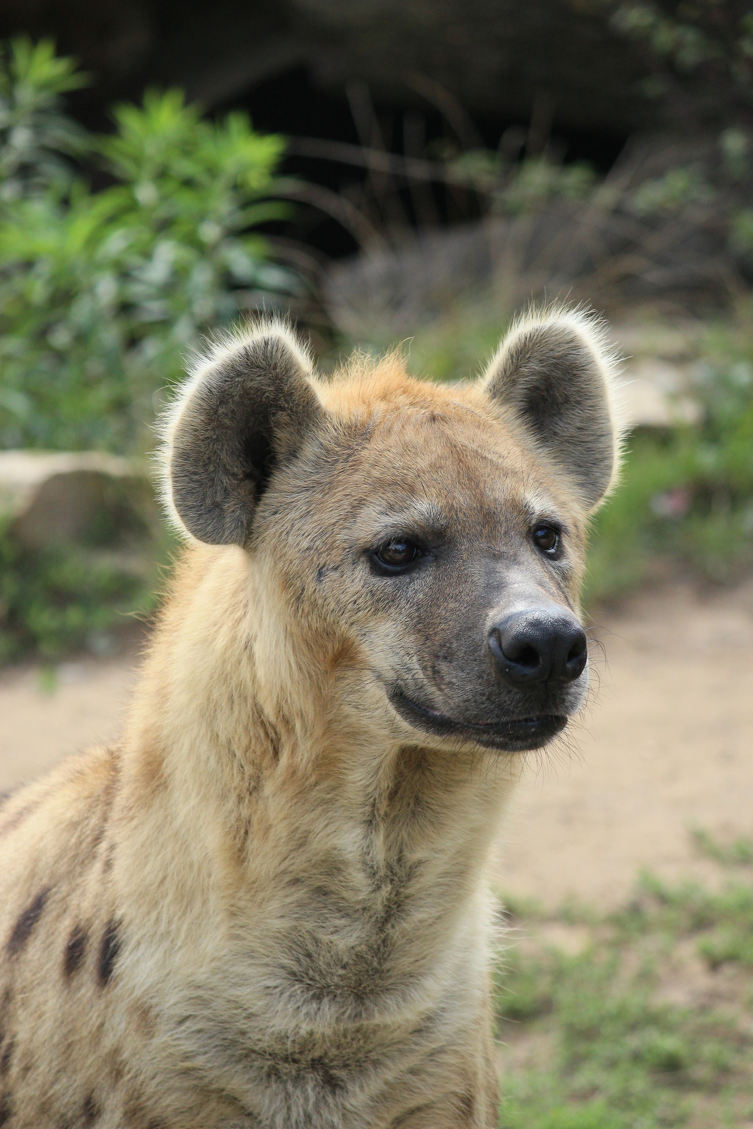 Crocuta crocuta Leipzig Zoo 2013